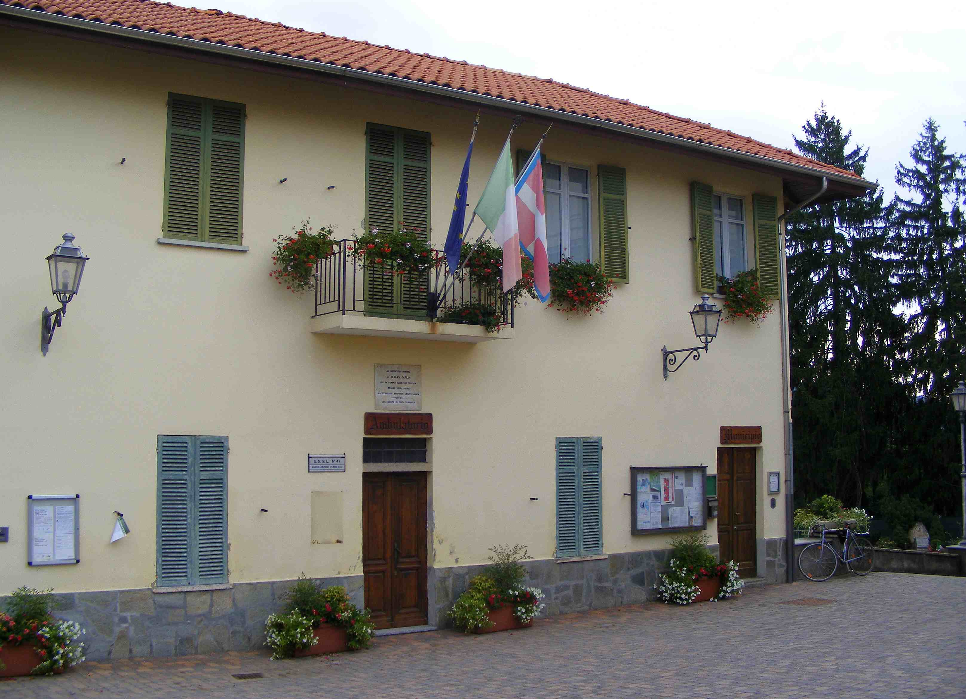 Ternengo (BI, Italy): town hall